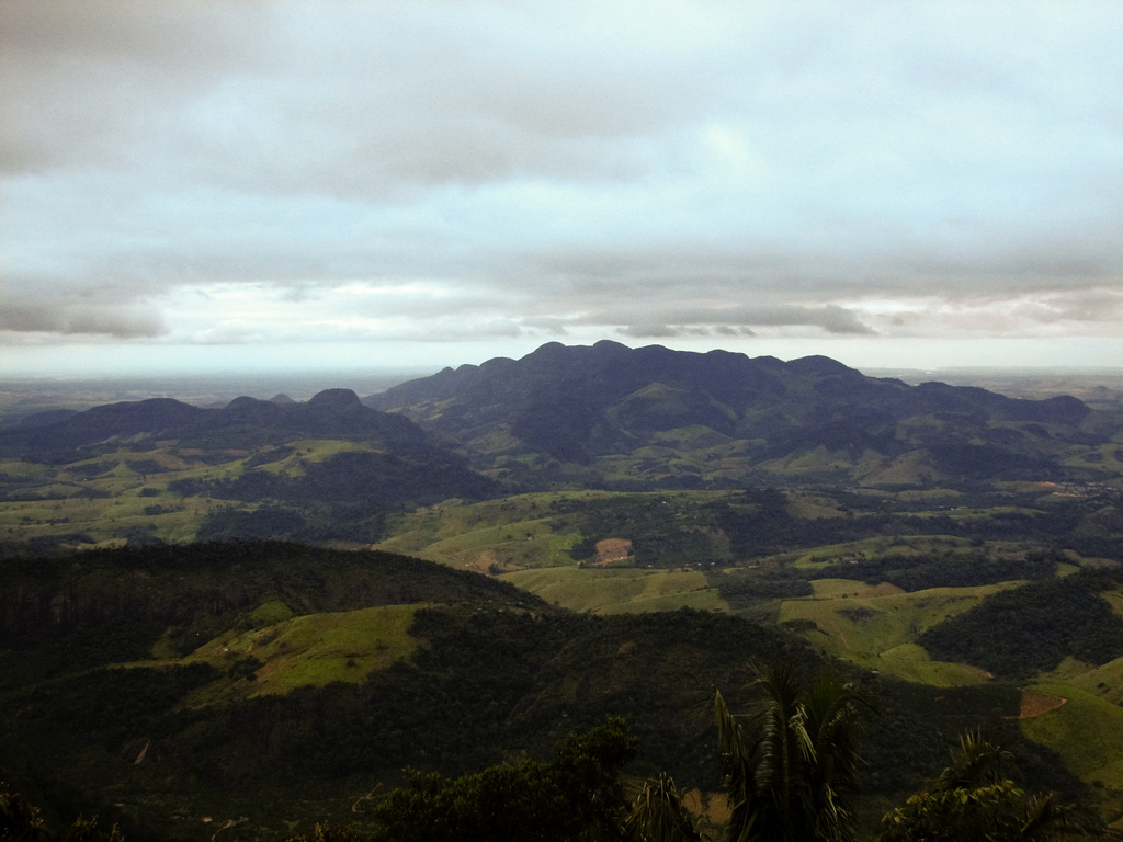 View from Pico do Goiapaba-açu, in Fundão, Espírito Santo, Brazil.